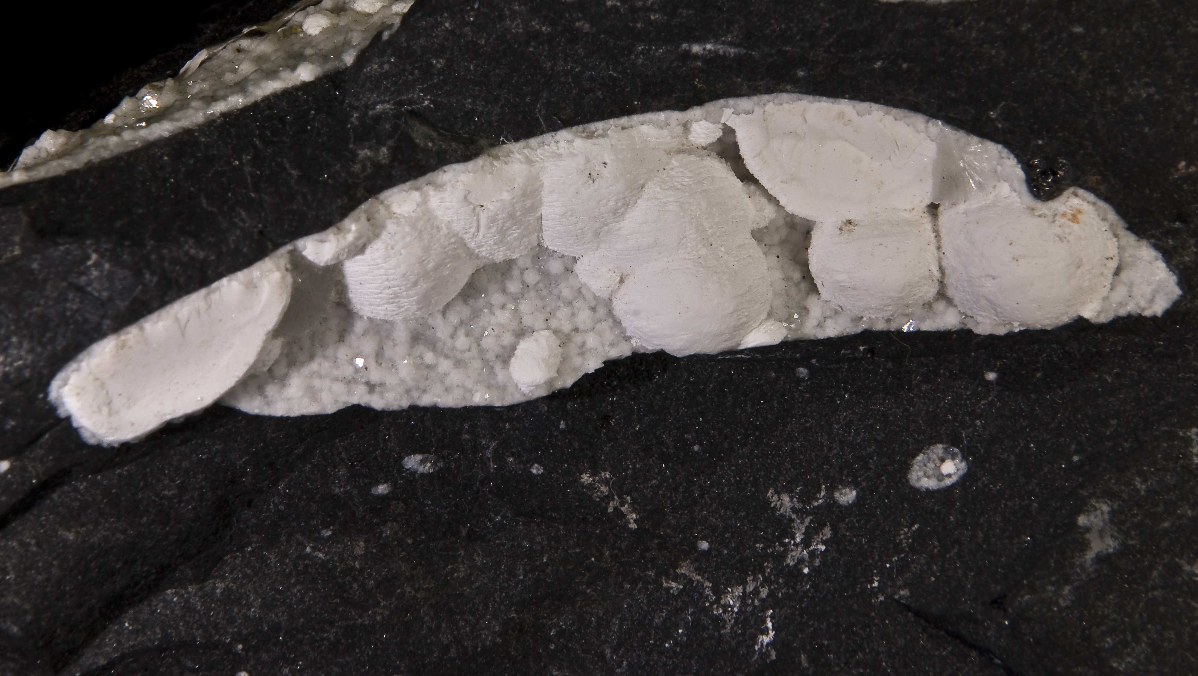 Gonnardite on Philipsite Locality : La Chaux de Bergonne, Gignat, Saint-Germain-Lembron, Puy-de-Dôme, Auvergne, France Size : Size of geode 5.9cm